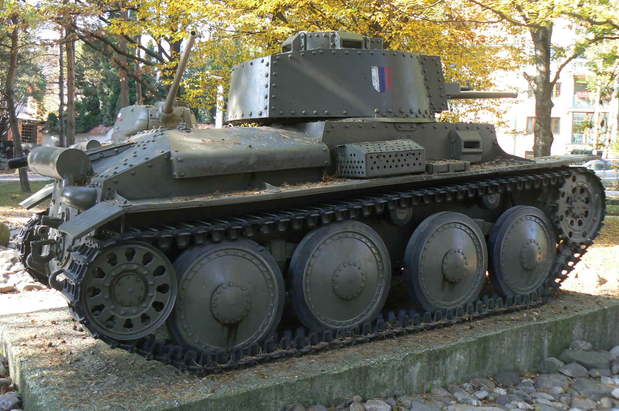 Museum of Slovak National Uprising.